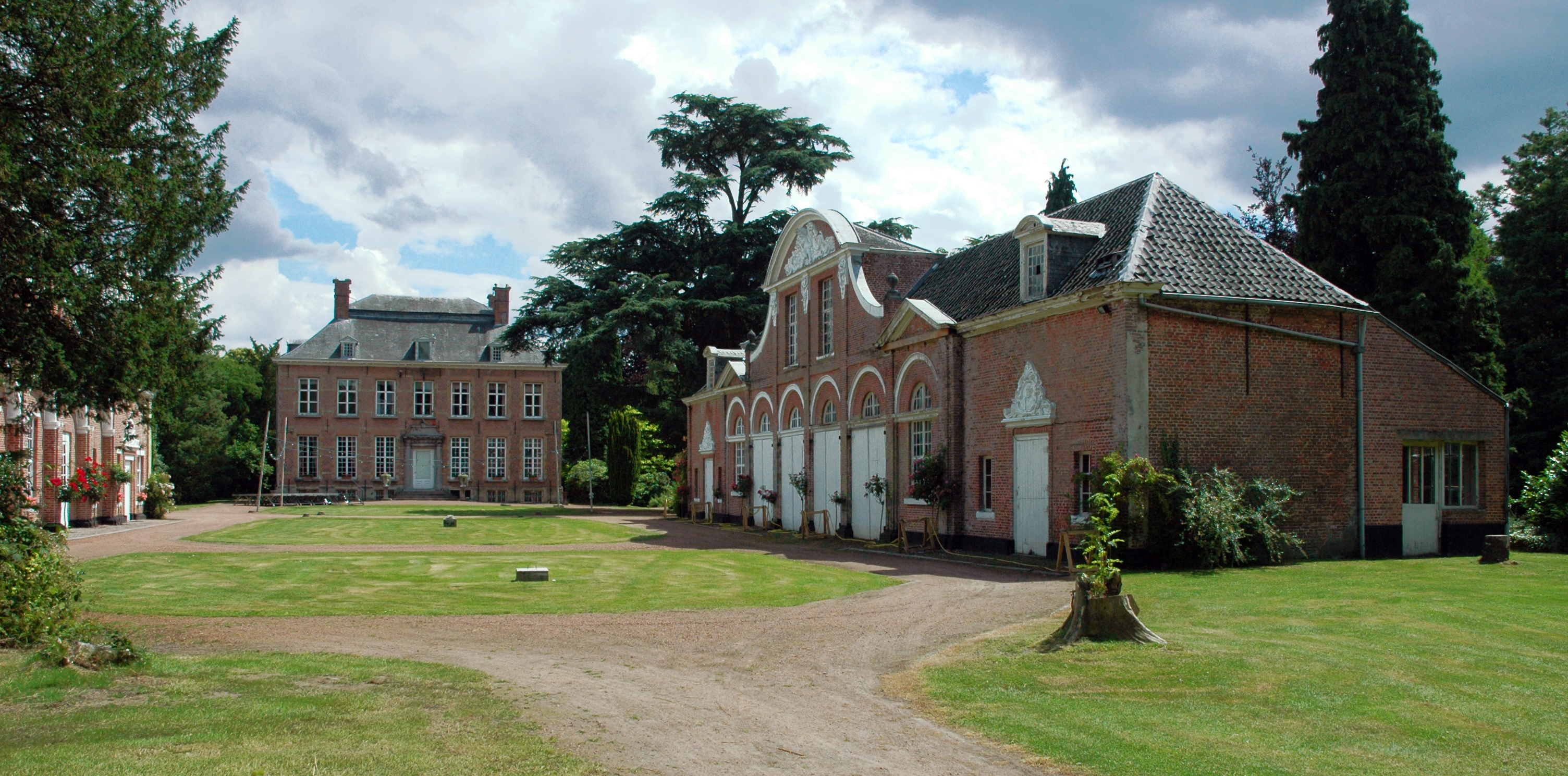 The Kasteel van Berlare (Castle of Berlare) and the southern service building around the central lawn. Onroerend erfgoed, address: Dorp 1, Berlare, Belgium.